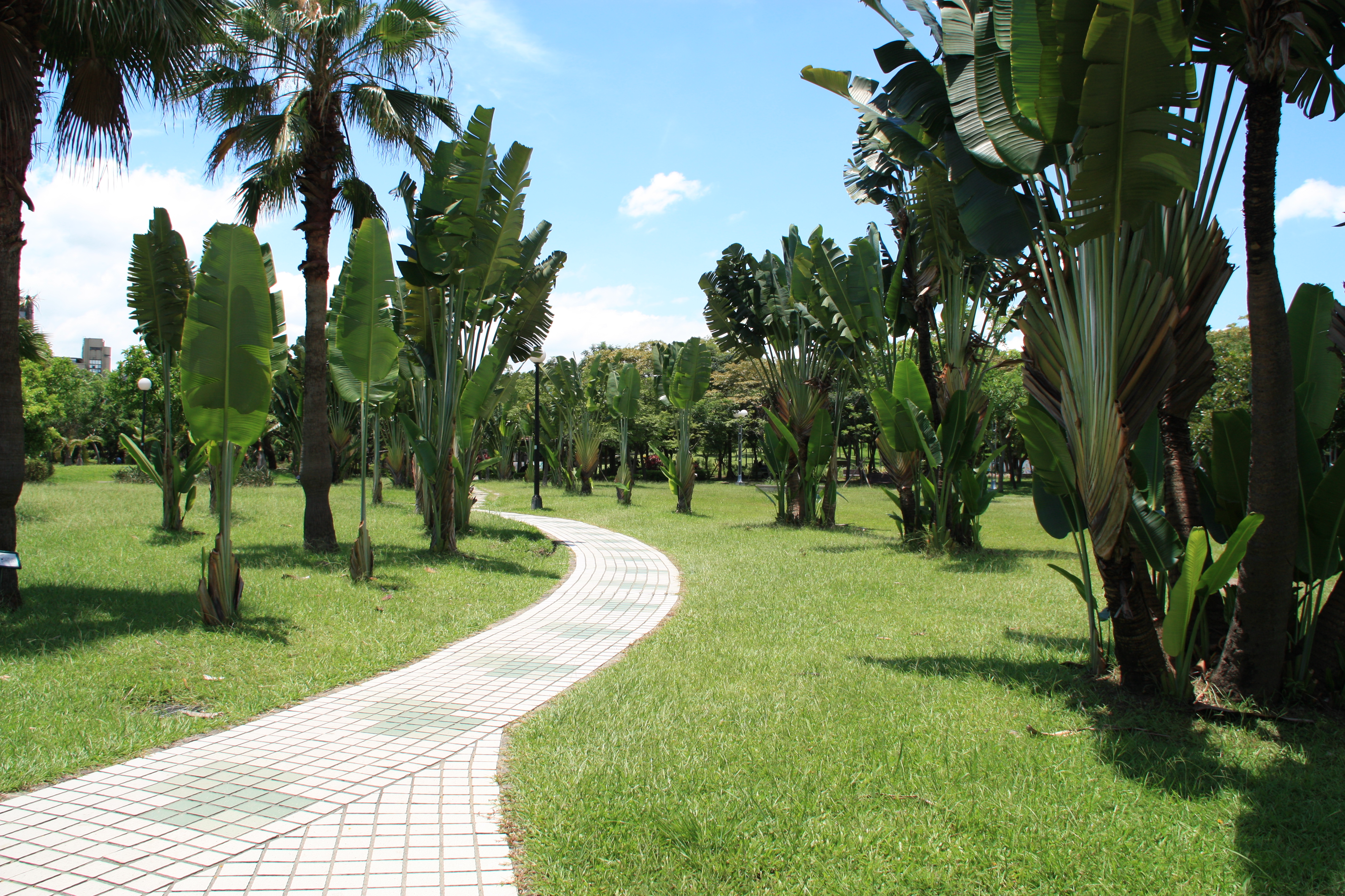 Táiběi Da-an District DàĀn Forest Park